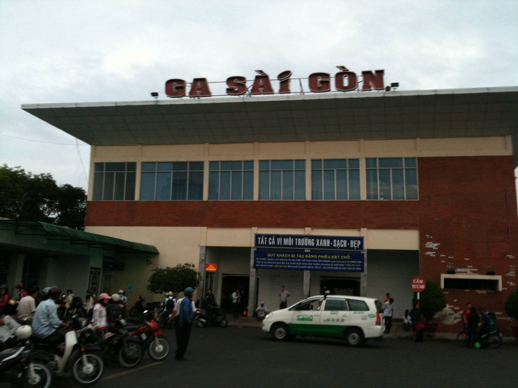 Front face of Saigon Railway Station.